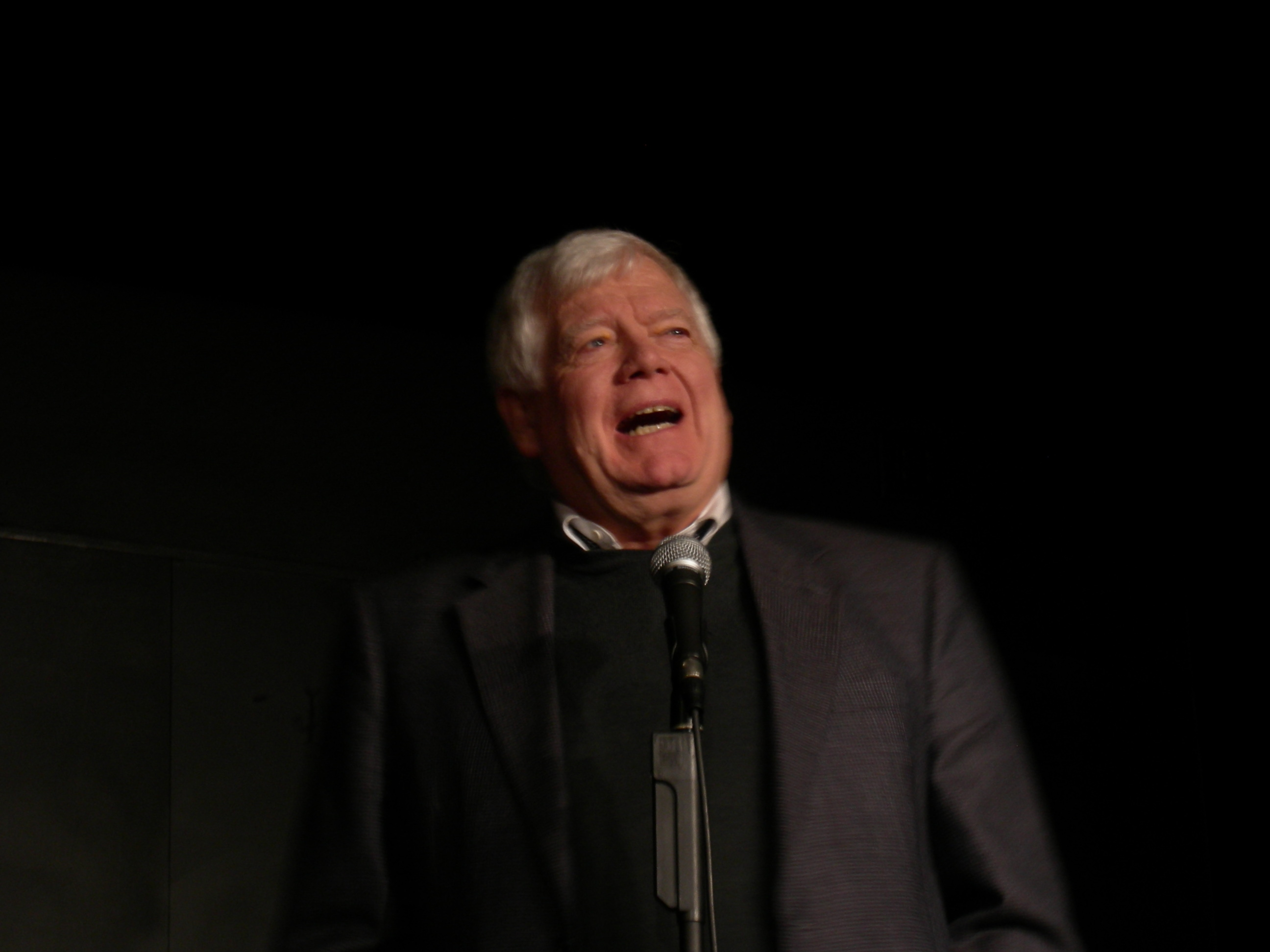 U.S. Congressman Jim McDermott (D-WA), Seattle, Washington.